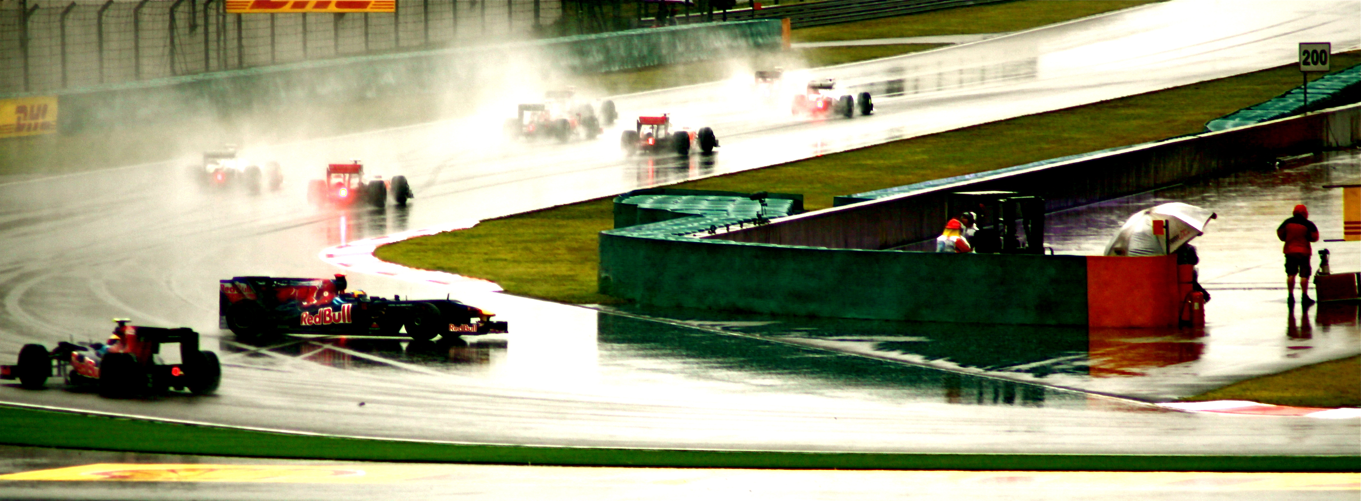 Sébastien Bourdais (Toro Rosso) spin, China GP 2009